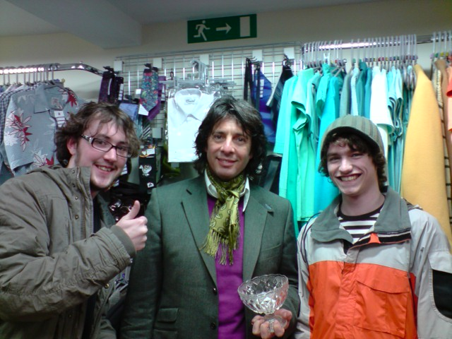 A picture of Laurence Llewelyn-Bowen, taken in Stow-on-the-Wold.